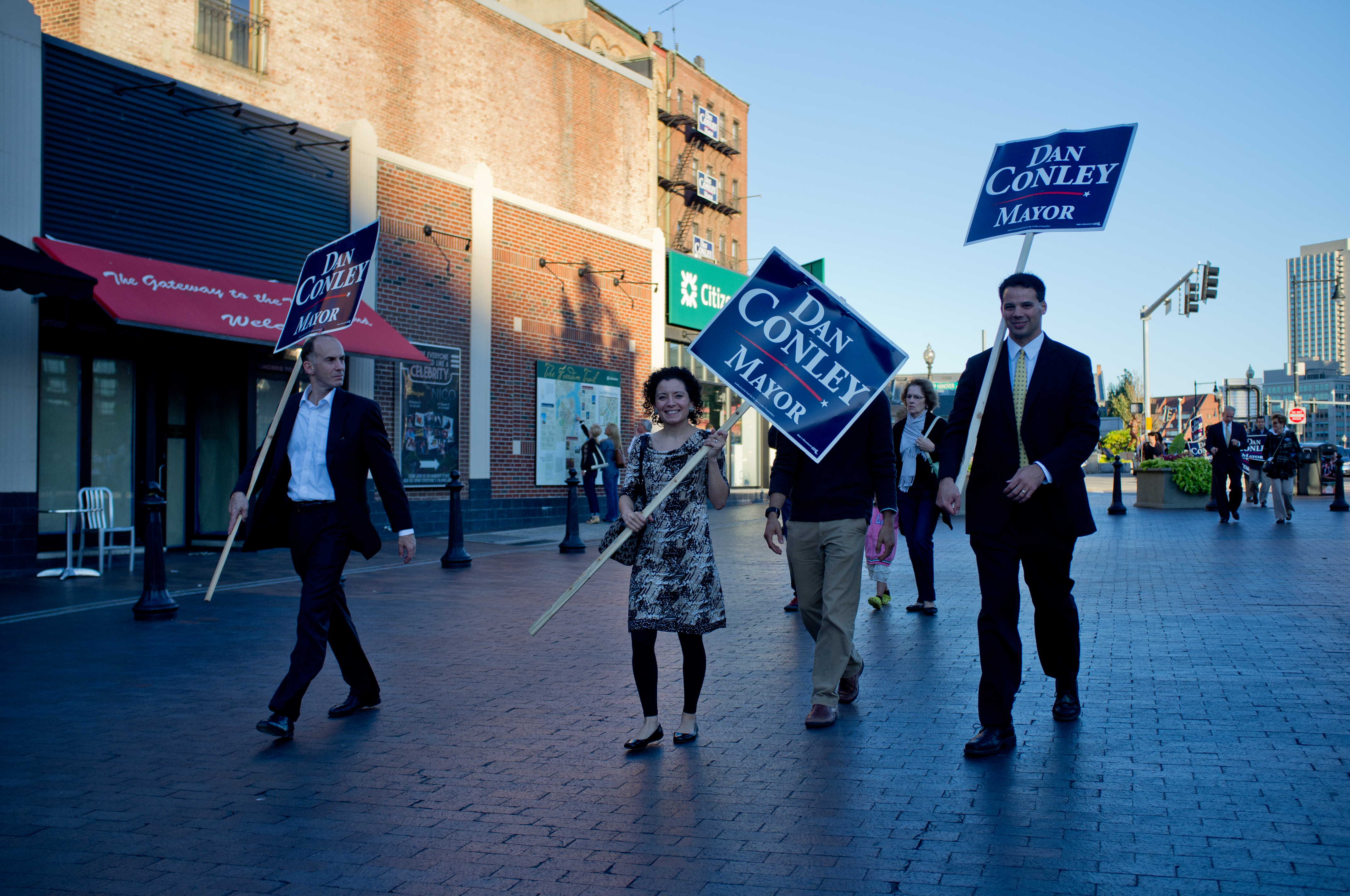 Daniel Conley for Mayor